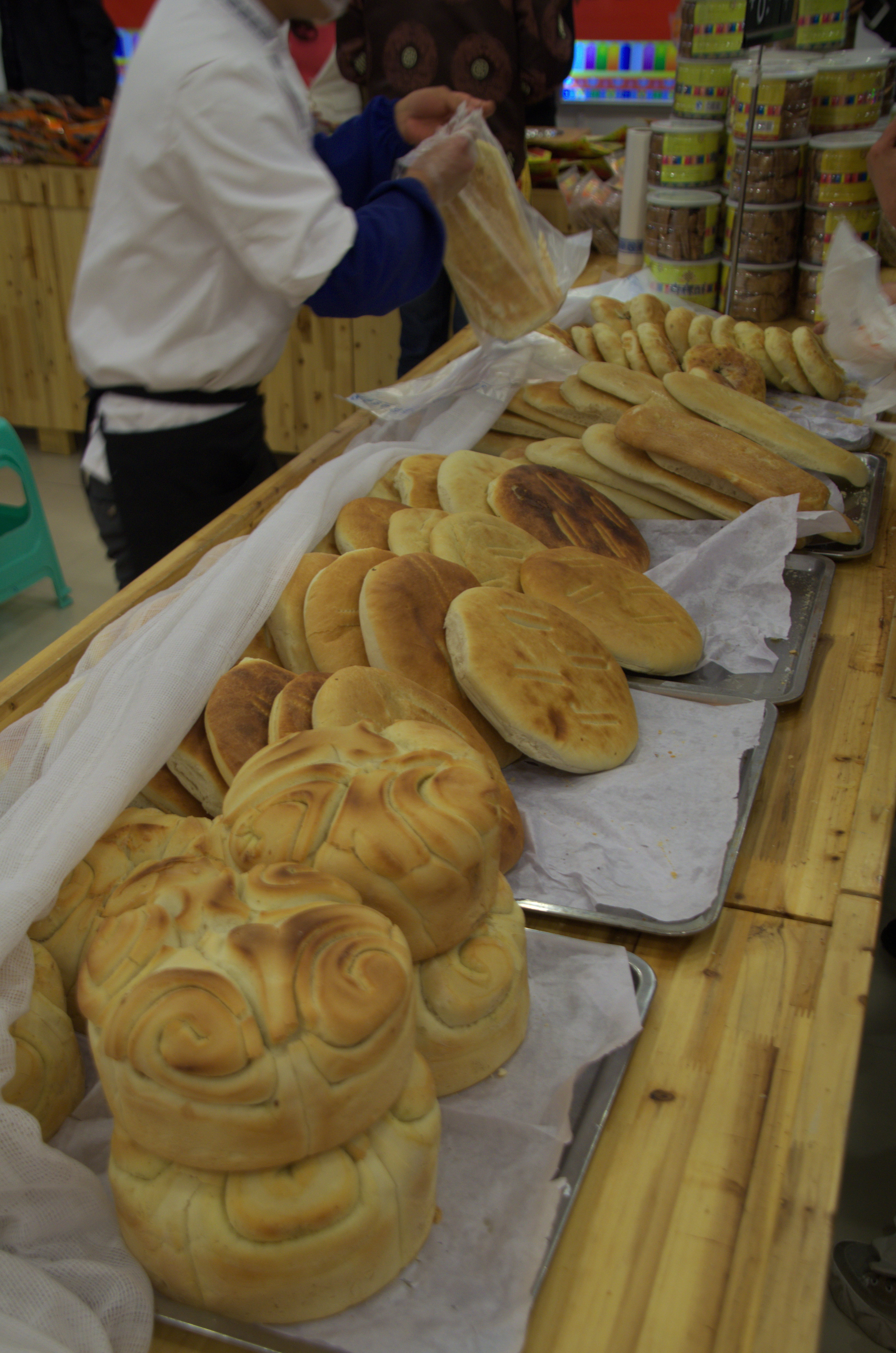 Some Highland barley breads, as sell in Songpan County, Sichuan provicne, People Republic of China.